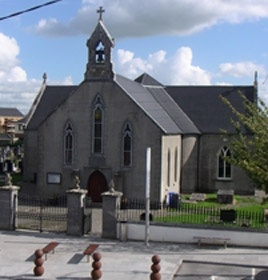 St. Mary's Church restored now as a Library, Oranmore, Co. Galway, Ireland